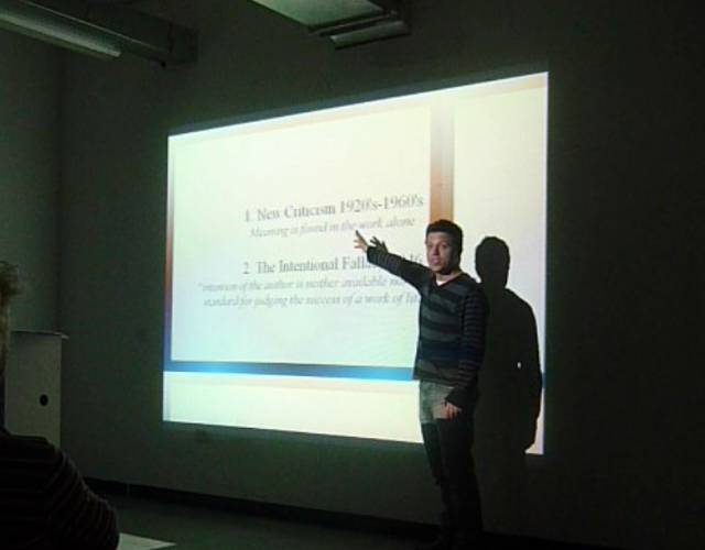 Vittorio Pelosi delivering a lecture on Intentism at The University of East London 2010